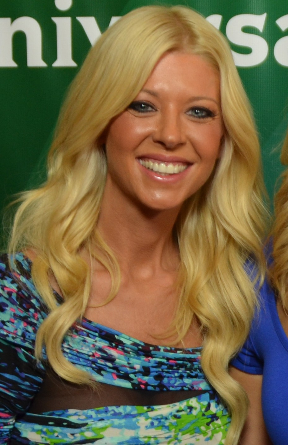 Actress Tara Reid and actor Ian Ziering at NBCUniversal's 2014 Summer TCA Tour on July 14, 2014